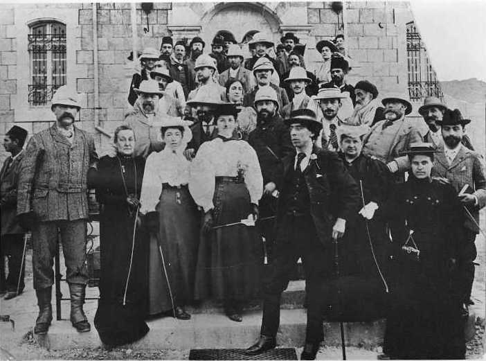 Settlements in Israel